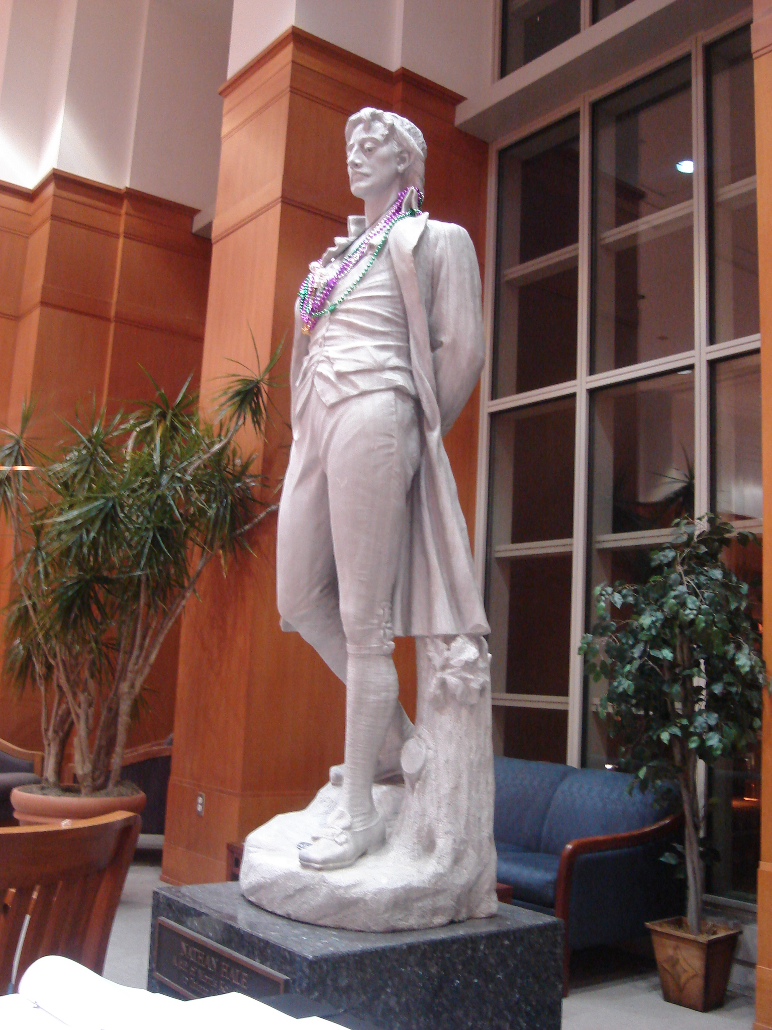 Statue of Nathan Hale at Tulane University Law School.